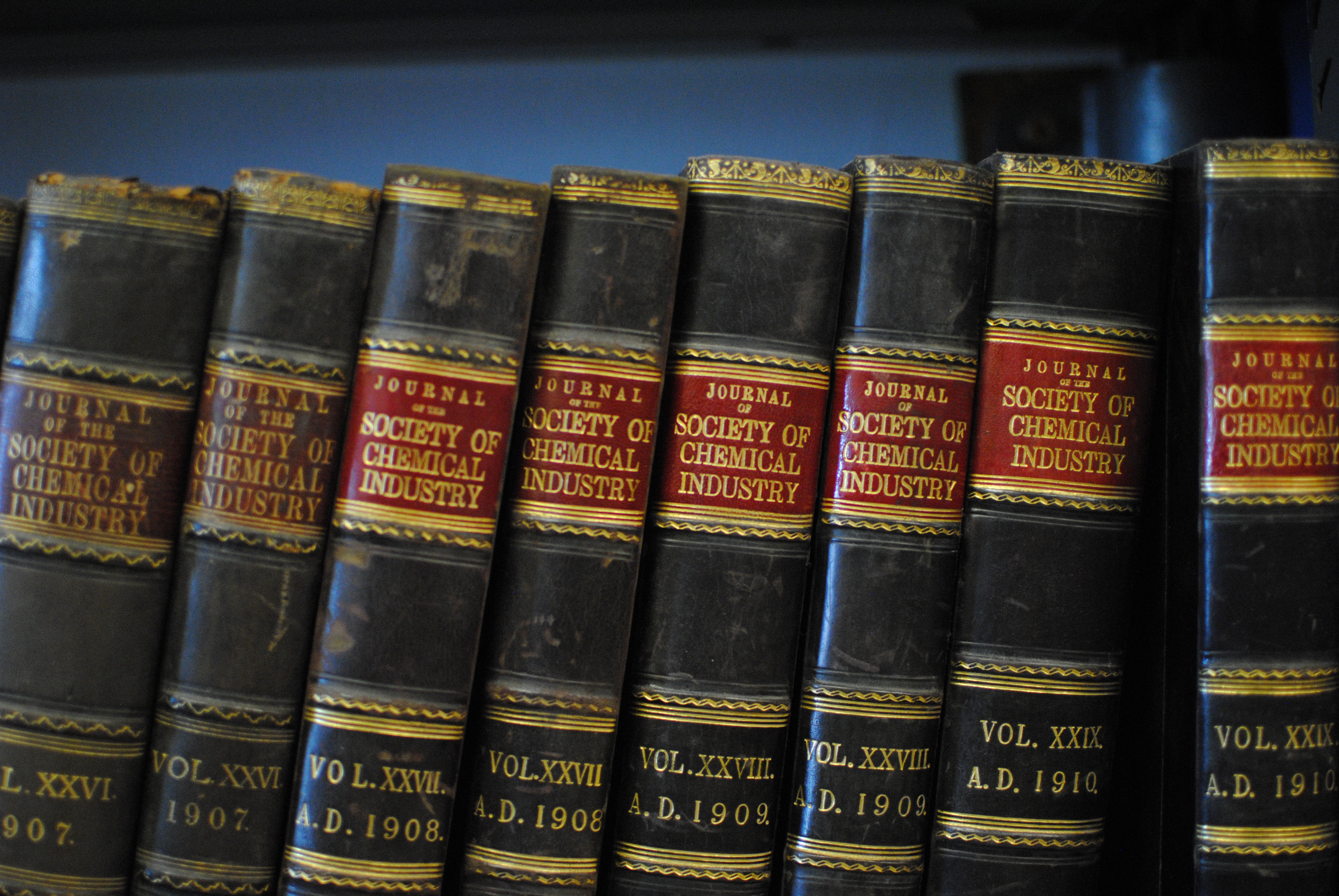 1907-1010 bound volumes of the Journal of the Society of Chemical Industry at Catalyst Science Discovery Centre, Widnes, England.